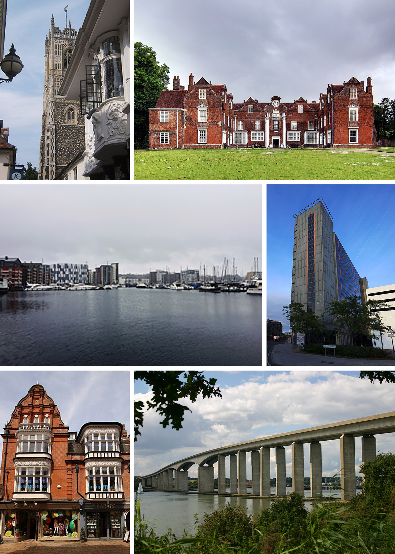 Montage of Ipswich